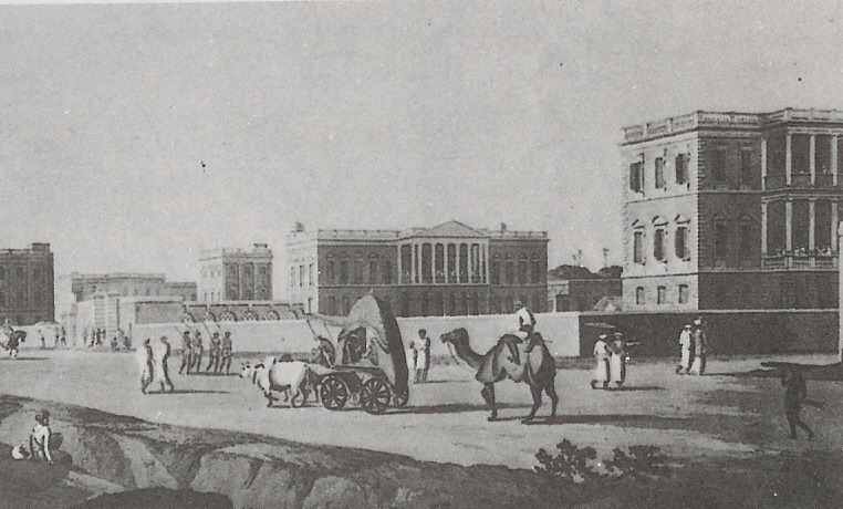 T&W Daniell, Oriental Scenery (1798) Chourangi (detail) now at Victoria Memorial